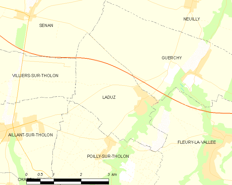 Map of French municipality Laduz